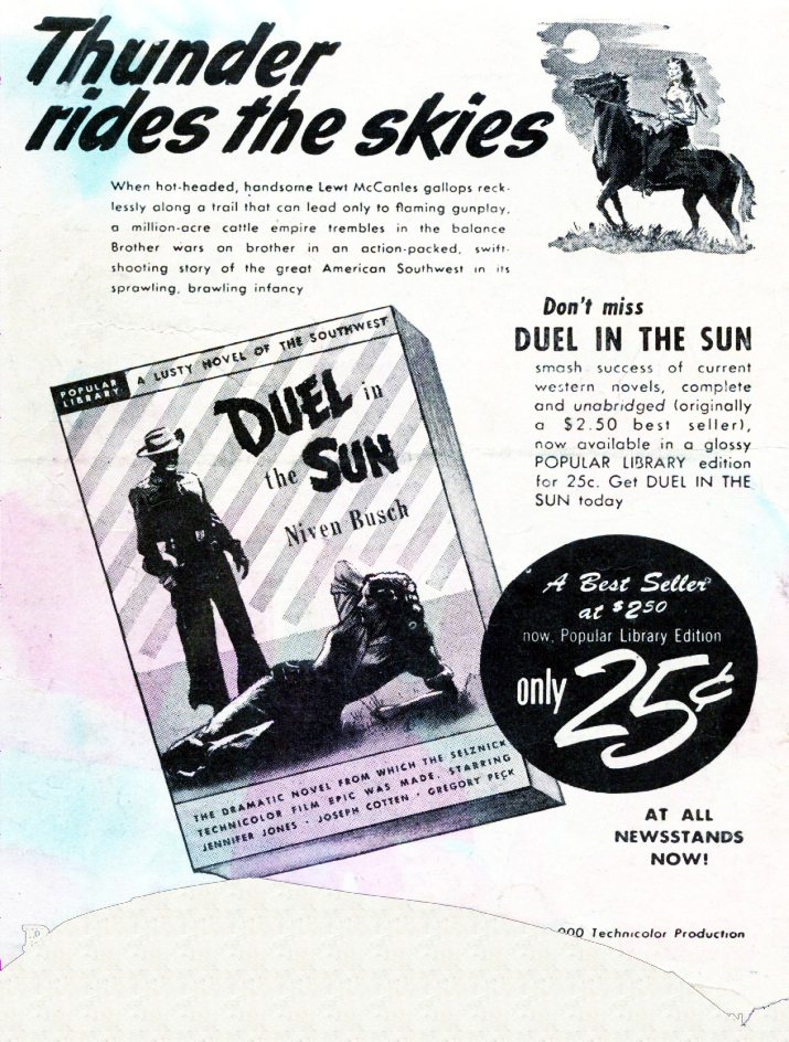 America's Best Comics #22, Page 2, June 1947